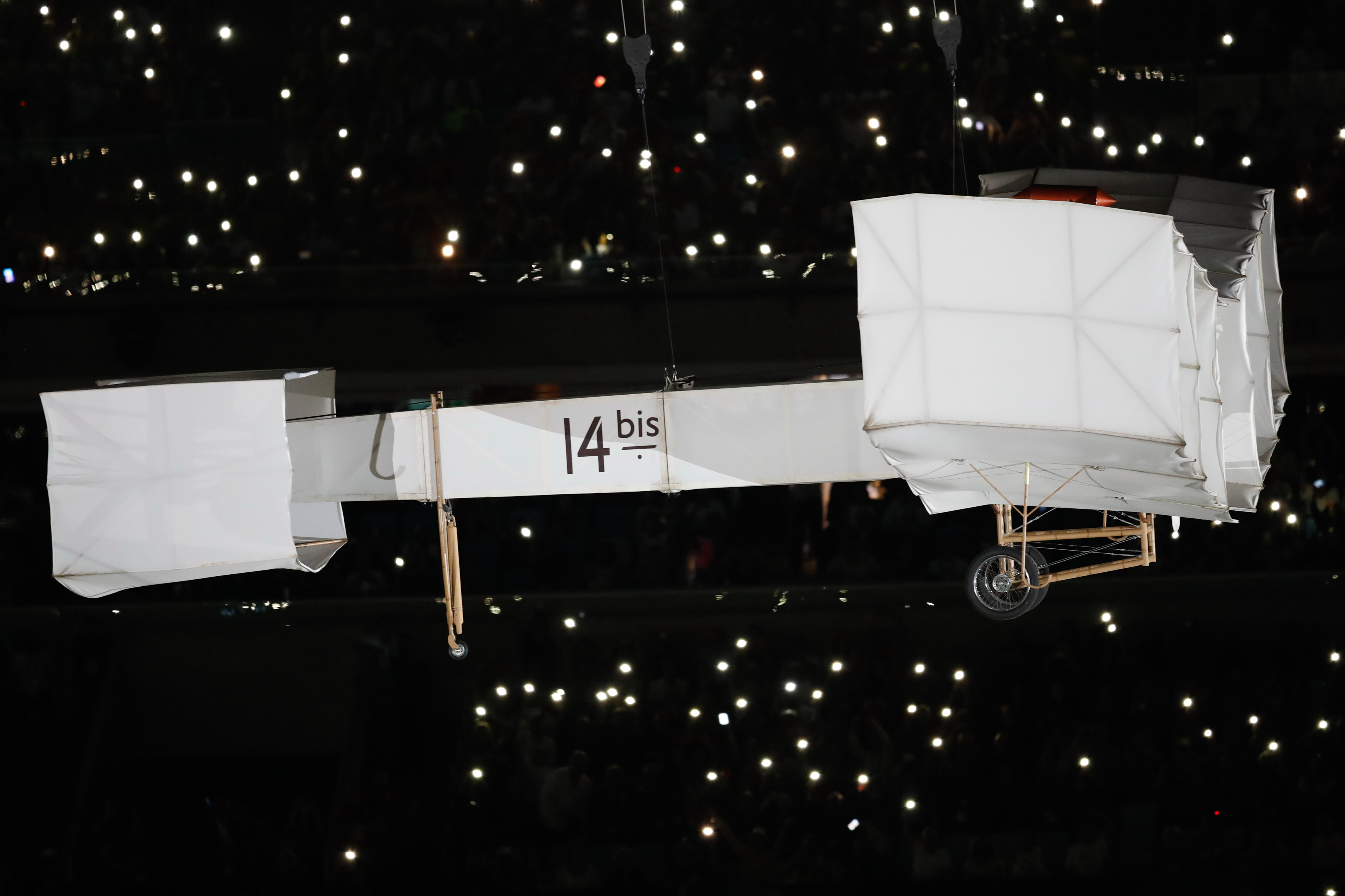 Rio de Janeiro - Cerimônia de abertura dos Jogos Olímpicos Rio 2016 no Estádio do Maracanã. (Fernando Frazão/Agência Brasil)